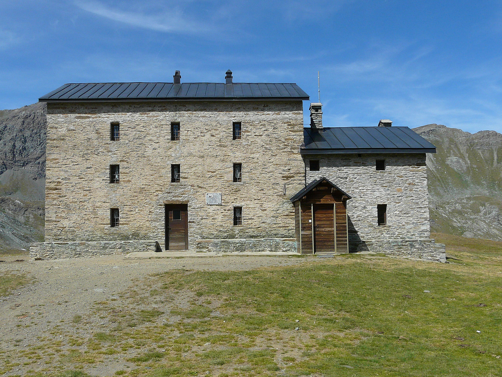 Miserin hut in the Graian Alps in Aosta valley, Italy.